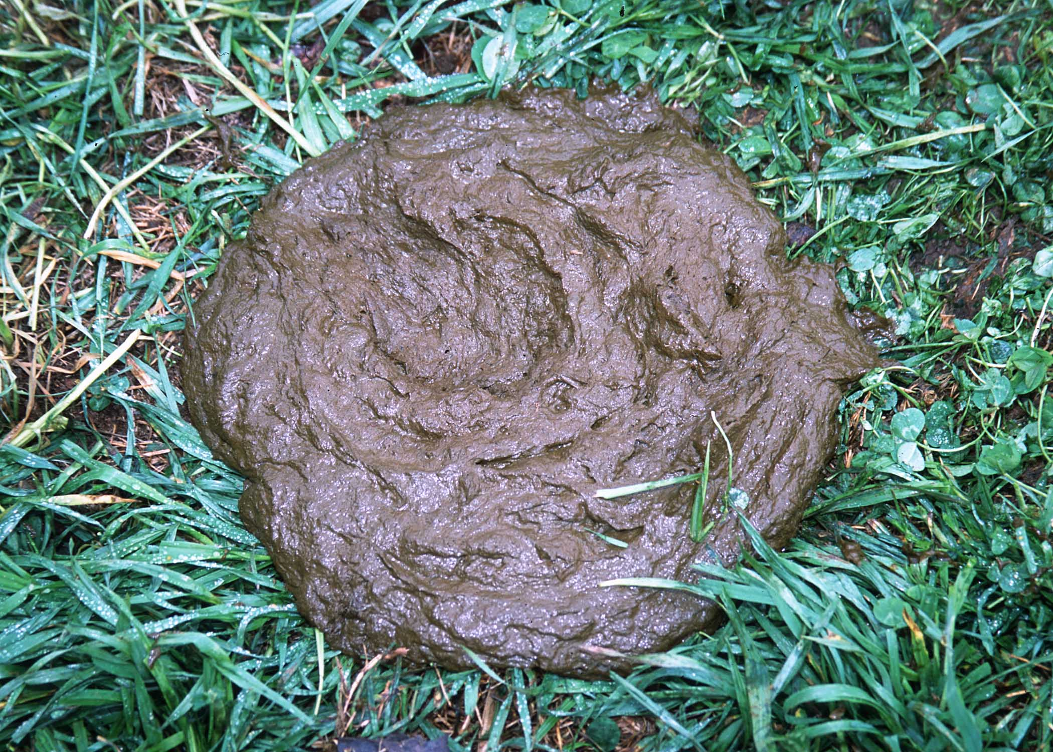 Cow manure showing proper fiber and moisture content indicating balanced feed. Benton, Arkansas, 2002.